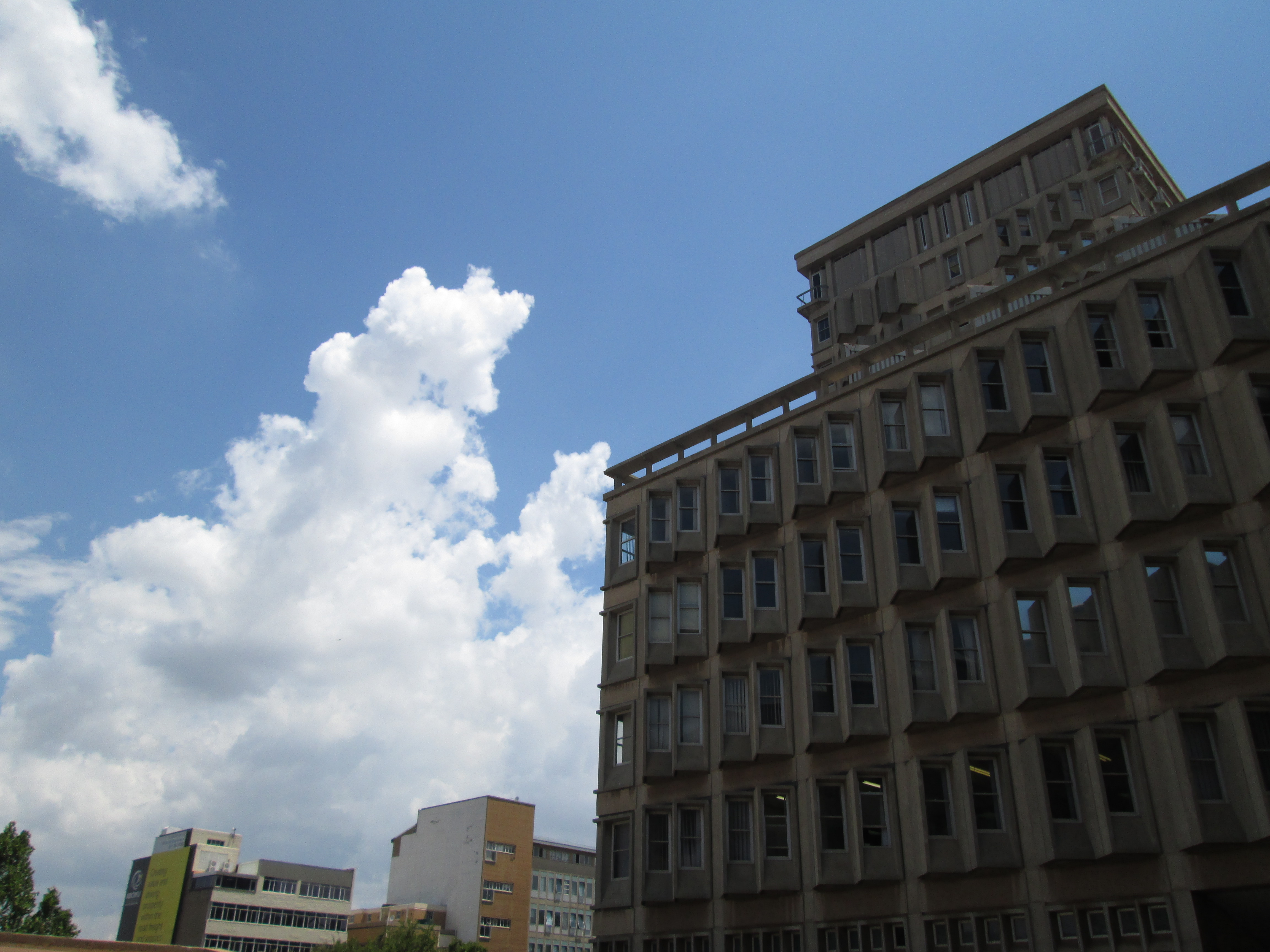 The Senate House, on the East Campus of the University of the Witwatersrand, Johannesburg, viewed from the south-east. Its top floor (the eleventh) houses university management (hence, on campus, management is often metonymically referred to as "the eleventh floor"), while the Senate and Council are housed in the east wing of the building (not visible in this photograph).